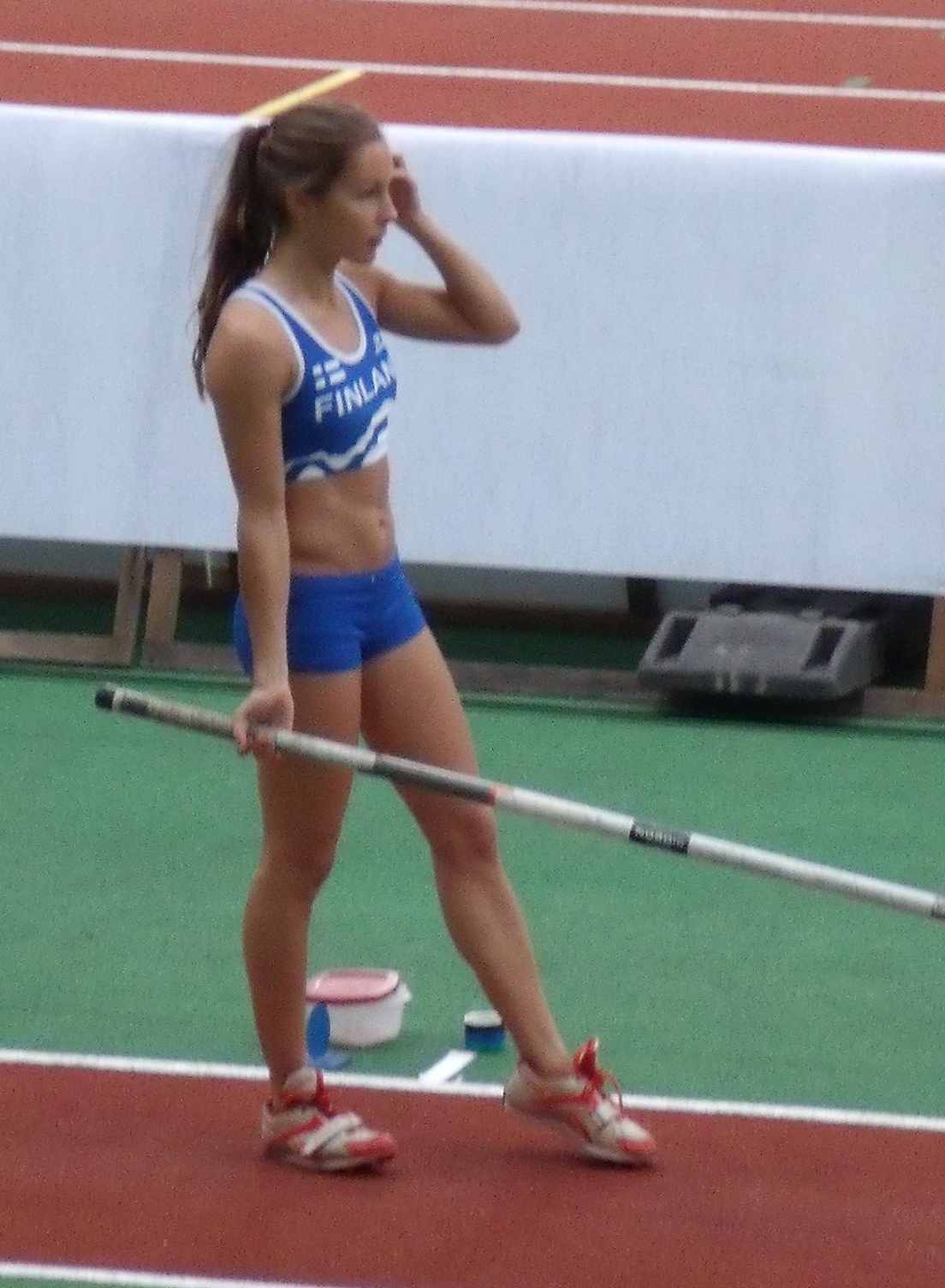 Vanessa Vandy at DecaNation 2009 in Stade Charléty